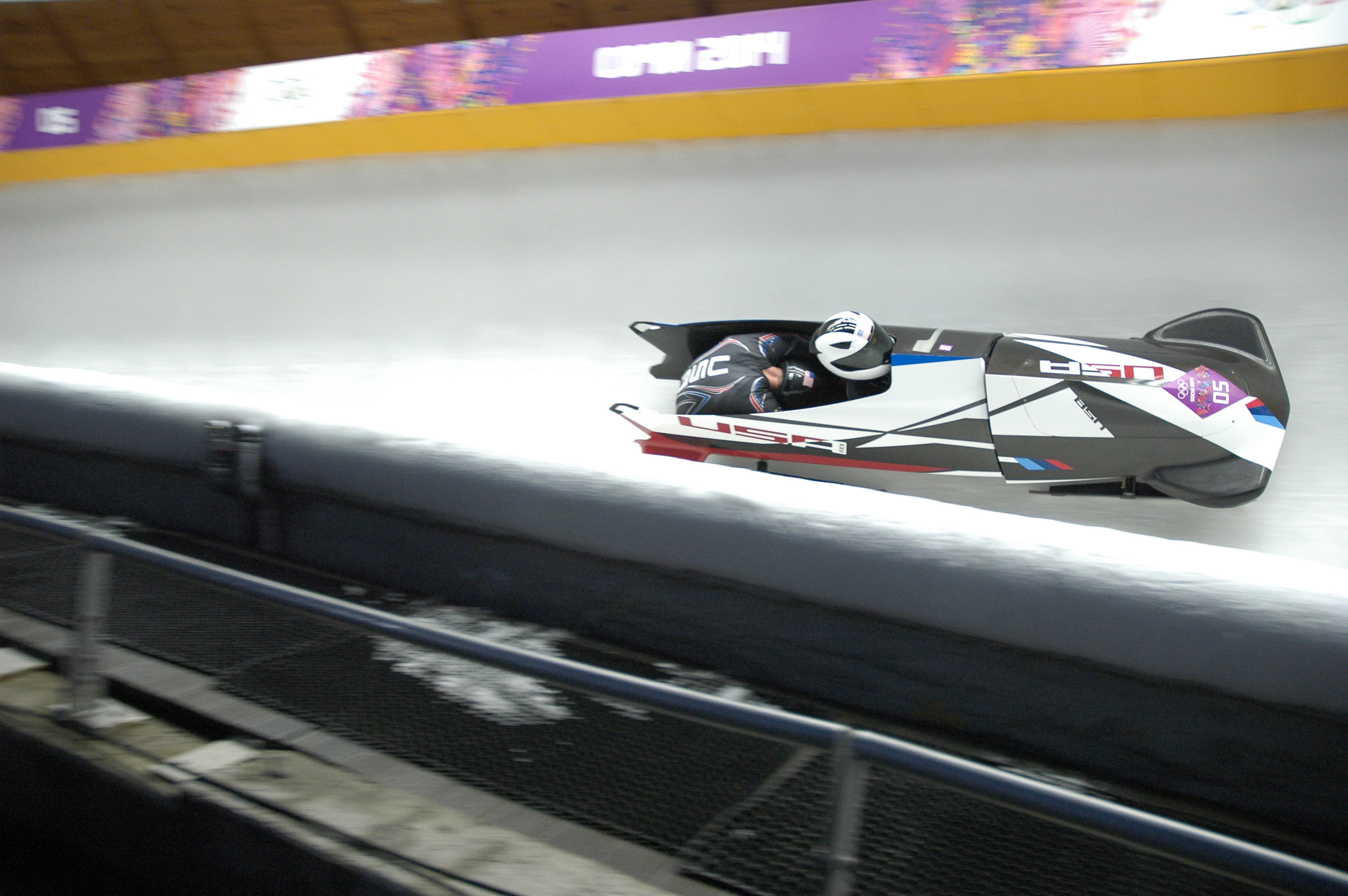 Two-man bobsleigh, 2014 Winter Olympics, United States(05)